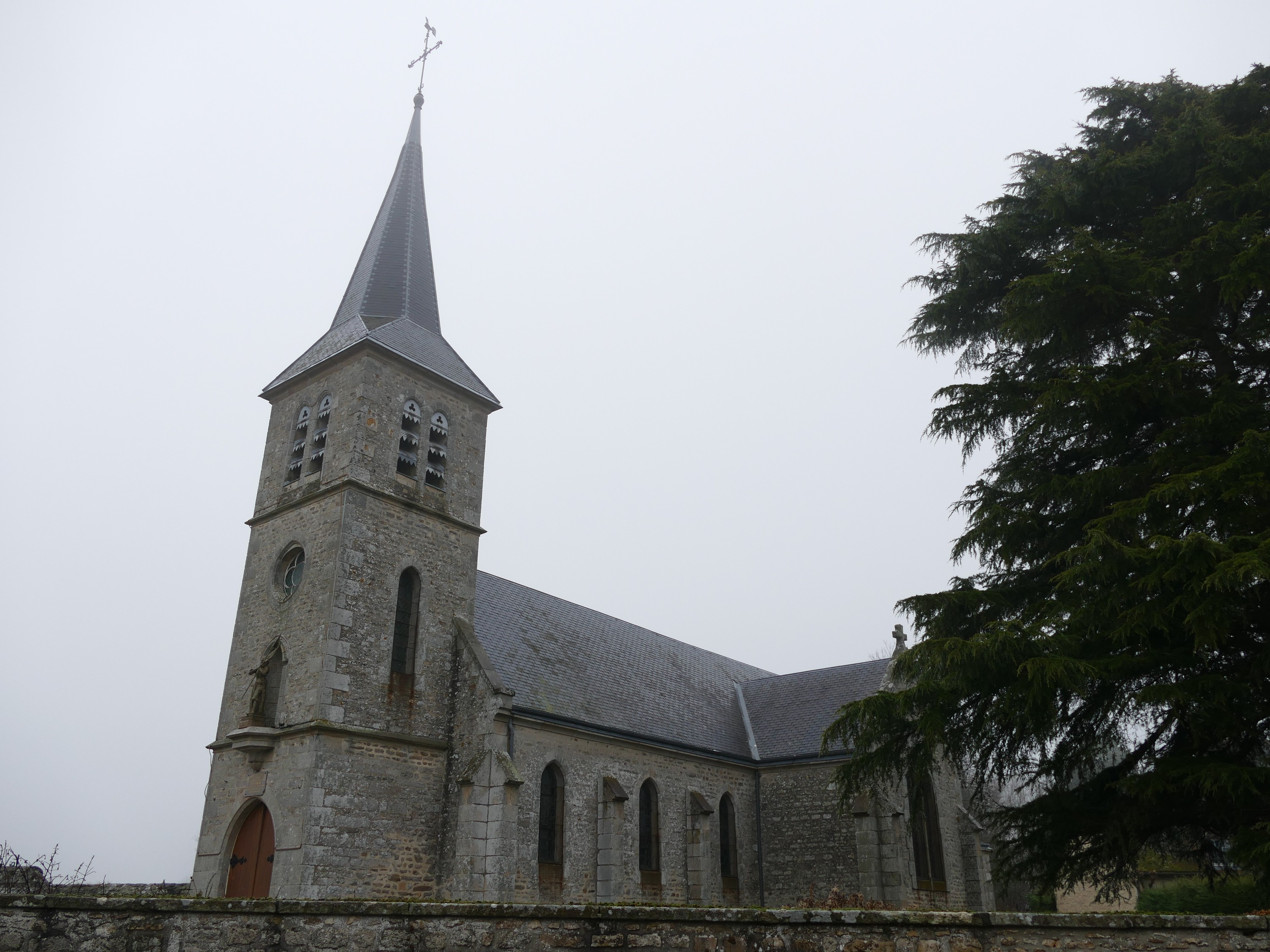 Saint-Cyr's church in Lonrai (Orne, Normandie, France).